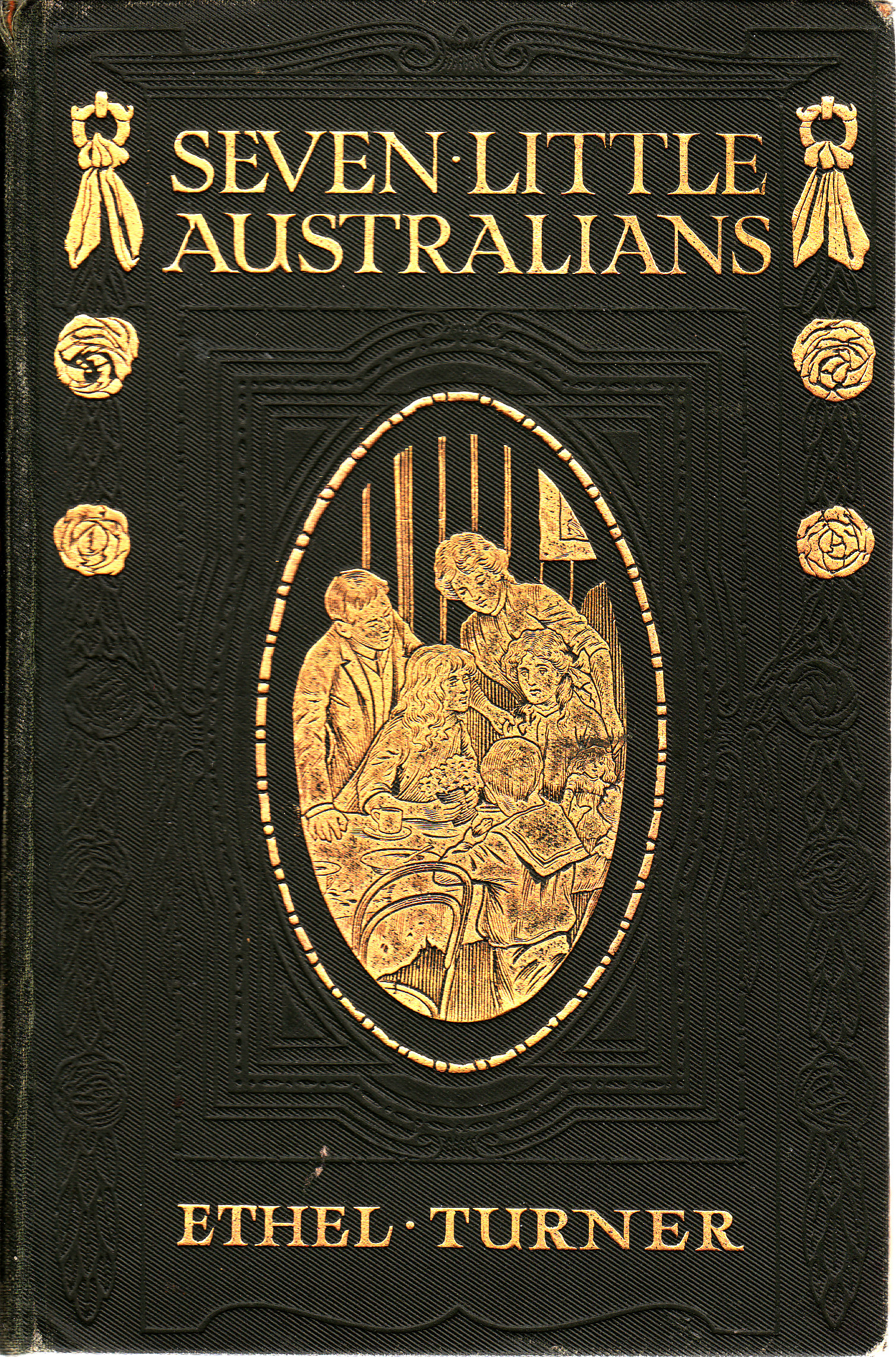 Cover of 16th edition of Seven Little Australians - an Australian novel by Ethel Turner, first published in 1894. 16th edition 1912.